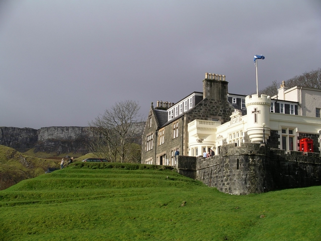 Flodigarry Hotel, Skye. The crags of Sron Vourlinn in the background.